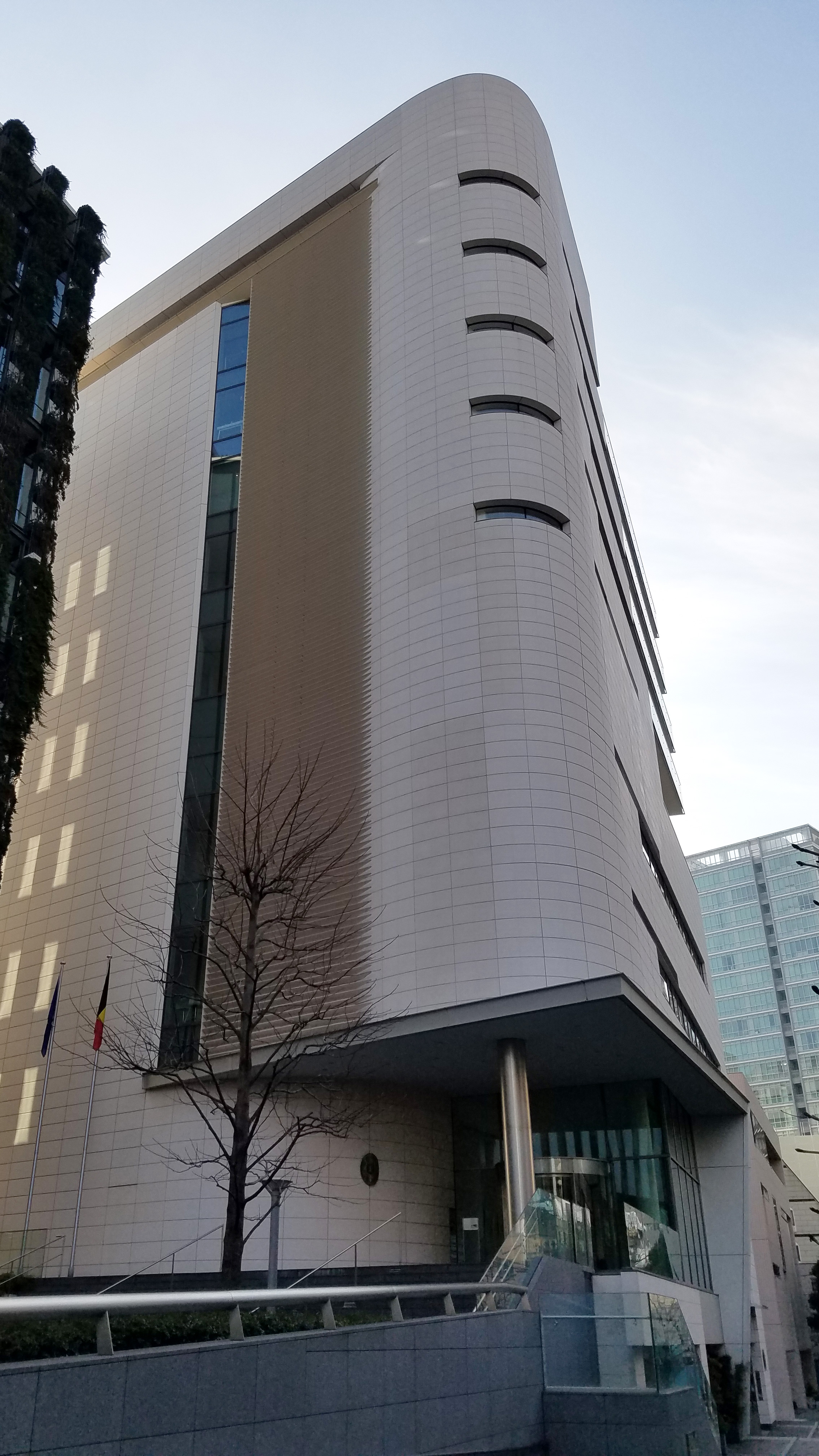 The embassy of the Kingdom of Belgium in Tokyo, Japan - 5-4 Nibanchō, Chiyoda, Tokyo